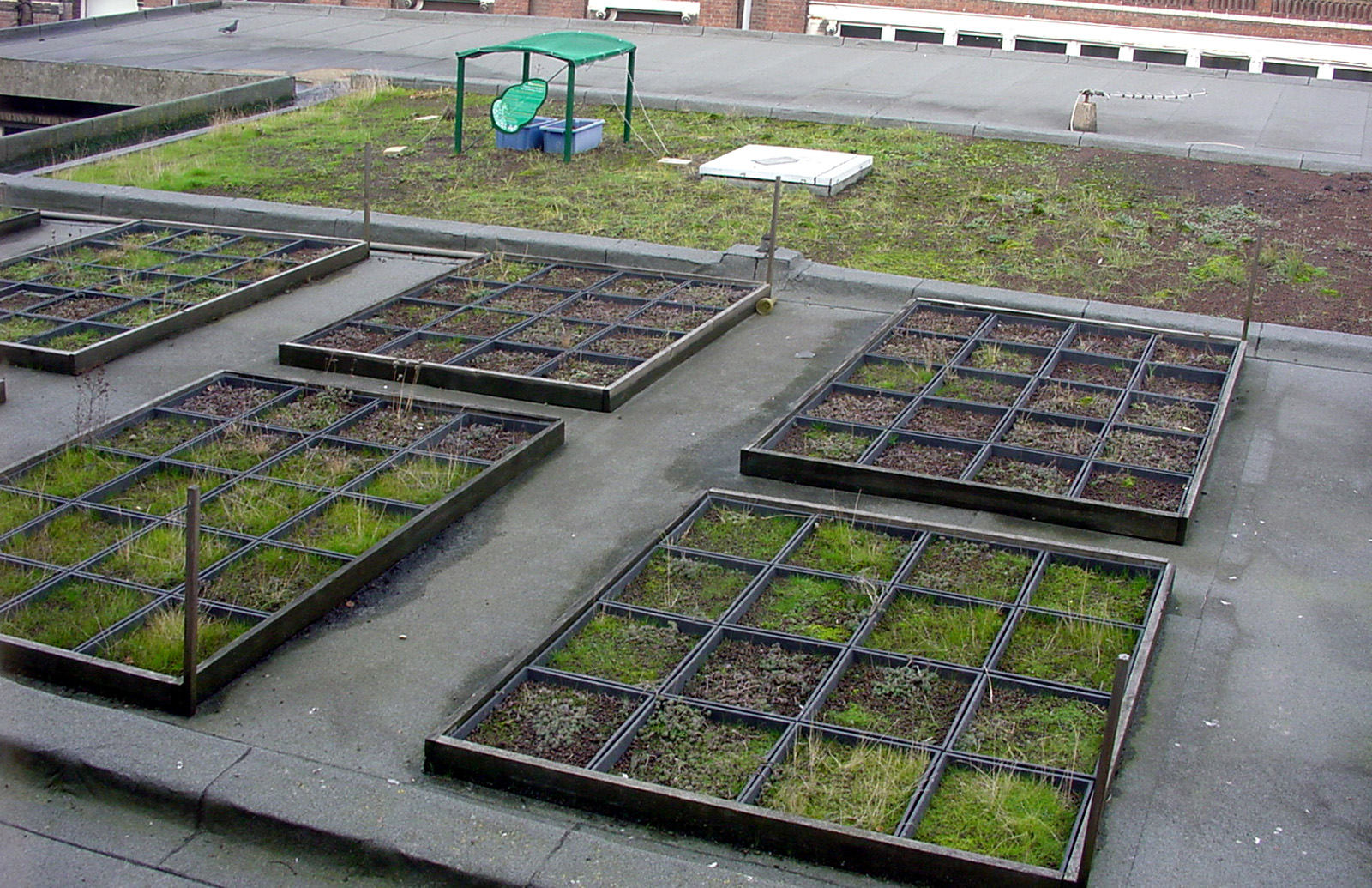 Experiment racks of green roof, in Lille (Northern France), on "House of Nature and Environment" (now renamed : MRES), 2003, 23 Rue Gosselet. Tobacco plants are visible at the backfront, placed there as part of a bioassessment study of air pollution by plants (bioindicator)(tobacco leaves are very sensitive to tropospheric ozone).